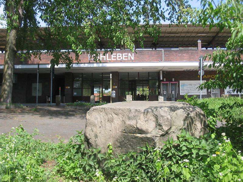 Glacial erratic from the Murellenschlucht at U-Bahn station Ruhleben. Murellenschlucht and the Schanzenwald (german for: Murellenhill, Murellenravine, Sconceforest) are a hill-landscape from the last gacial period in Berlin-Ruhleben in the district Charlottenburg-Wilmersdorf. It is part of the Teltow-Plateau at its northside in Berlin. In the hills there is the memorial Denkzeichen zur Erinnerung an die Ermordeten der NS-Militärjustiz am Murellenberg (german for: Thought-Signs to commemorate the victims of Nazi military justice at Murellenberg), created by the argentine, in Berlin living, artist Patricia Pisani in 2002.